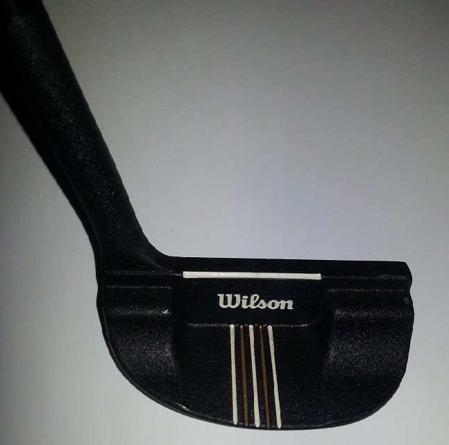 This is a TPA XVIII putter designed by Terry McCabe